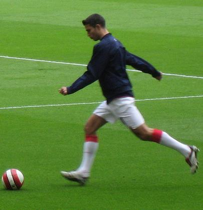 Dutch football (soccer) player Robin van Persie